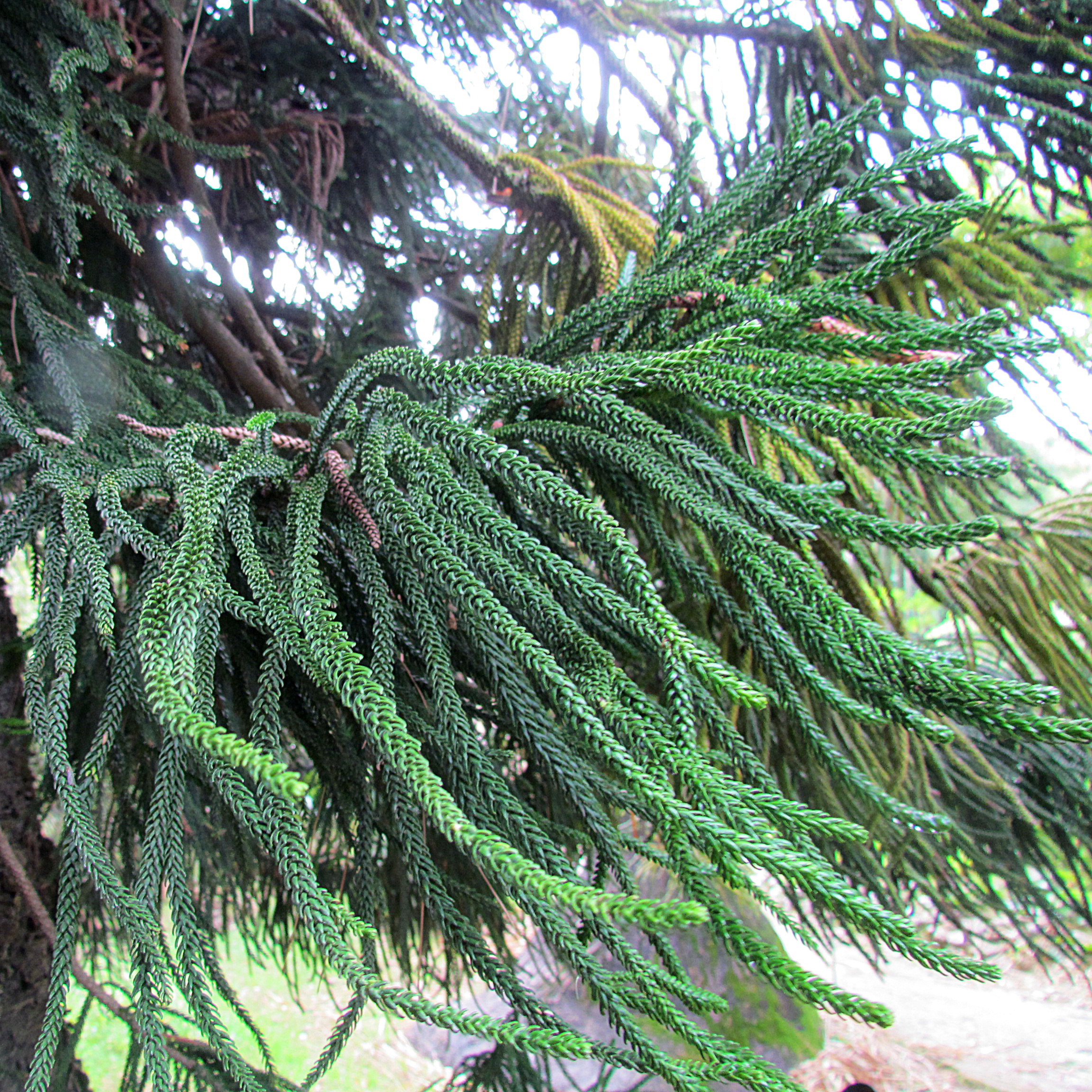 Araucaria columnaris branchlets